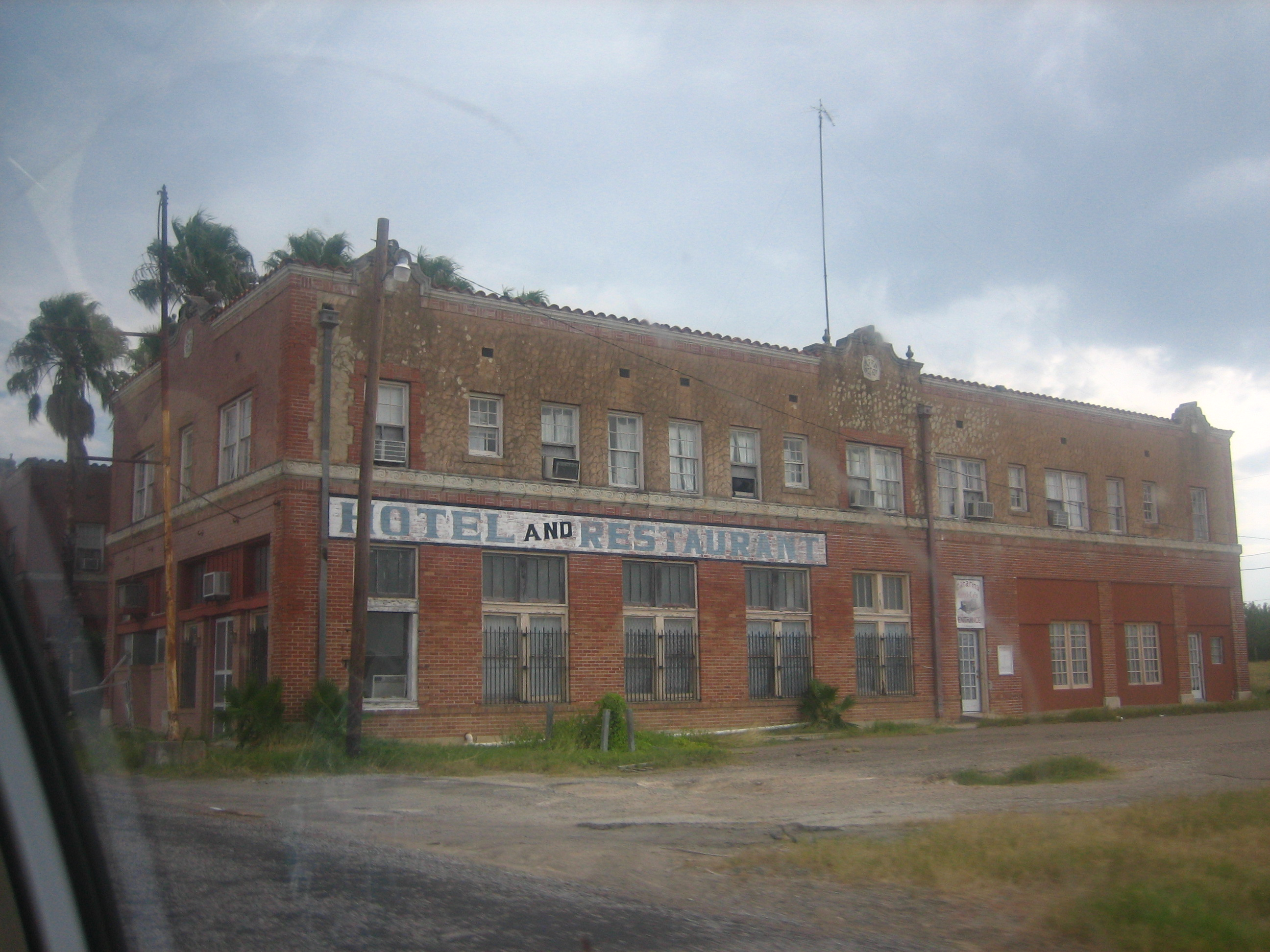 I took photo on Aug. 16, 2008.Billy Hathorn (talk) 02:01, 17 August 2008 (UTC)